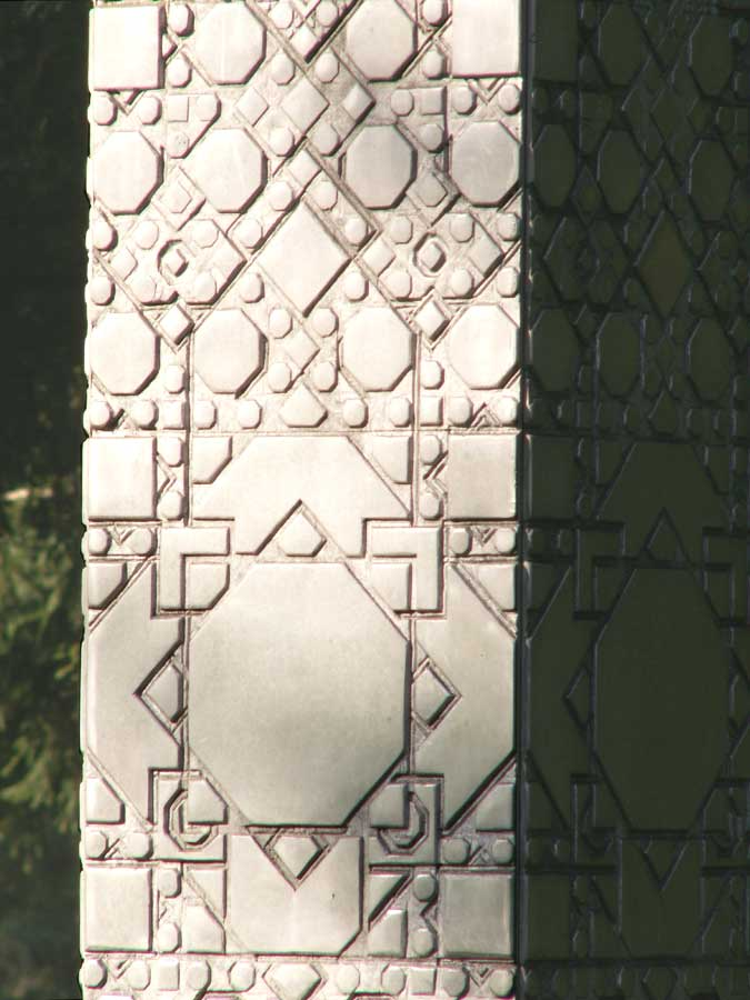 Österreichischer Skulpturenpark, Fritz Hartlauer, Vertical extract from the primal cell - detail -, 1982/84